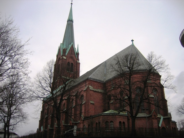 Church Uranienborg, backside, Oslo, Norway.